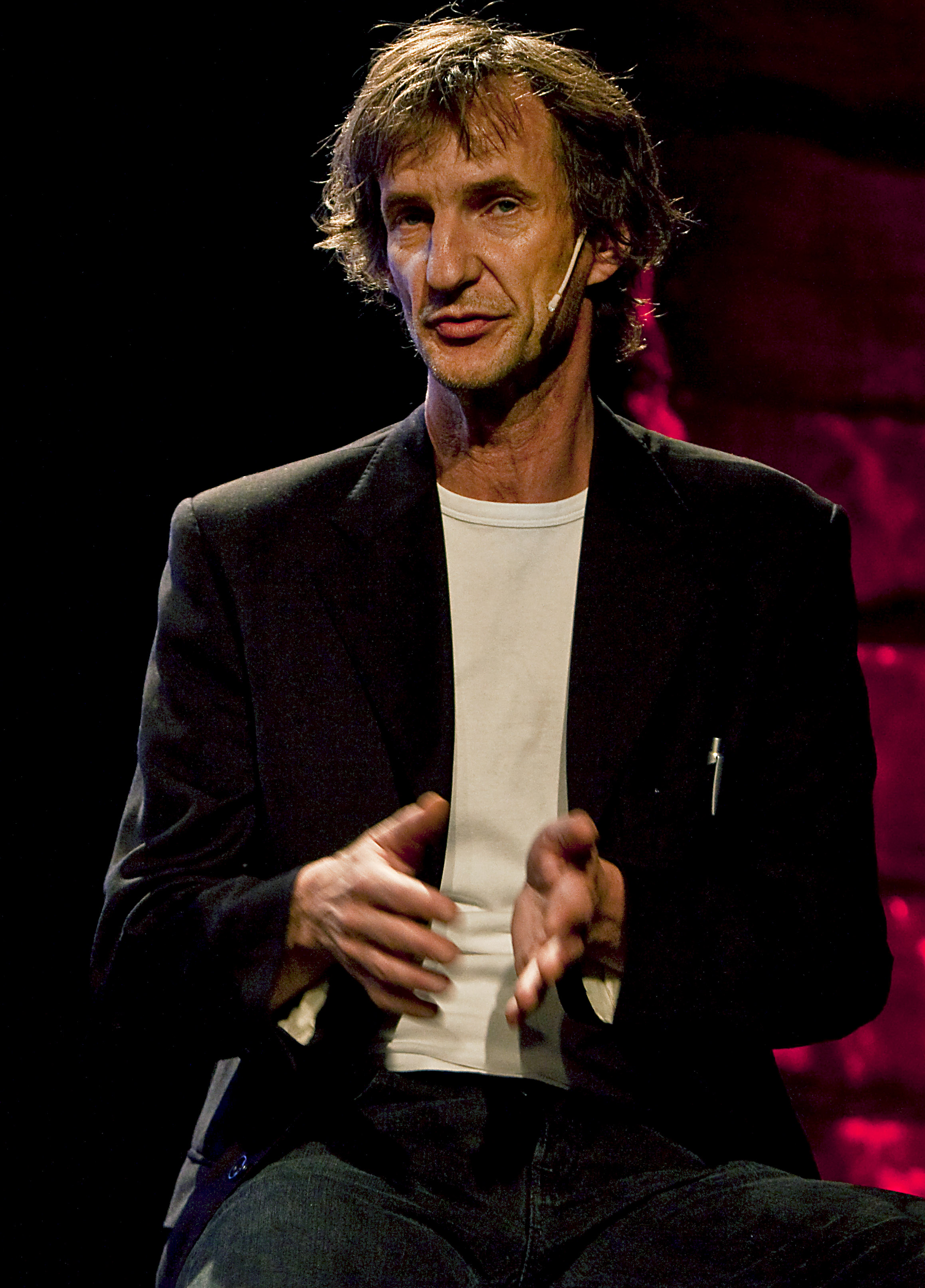 Foto: Jarle H. Moe